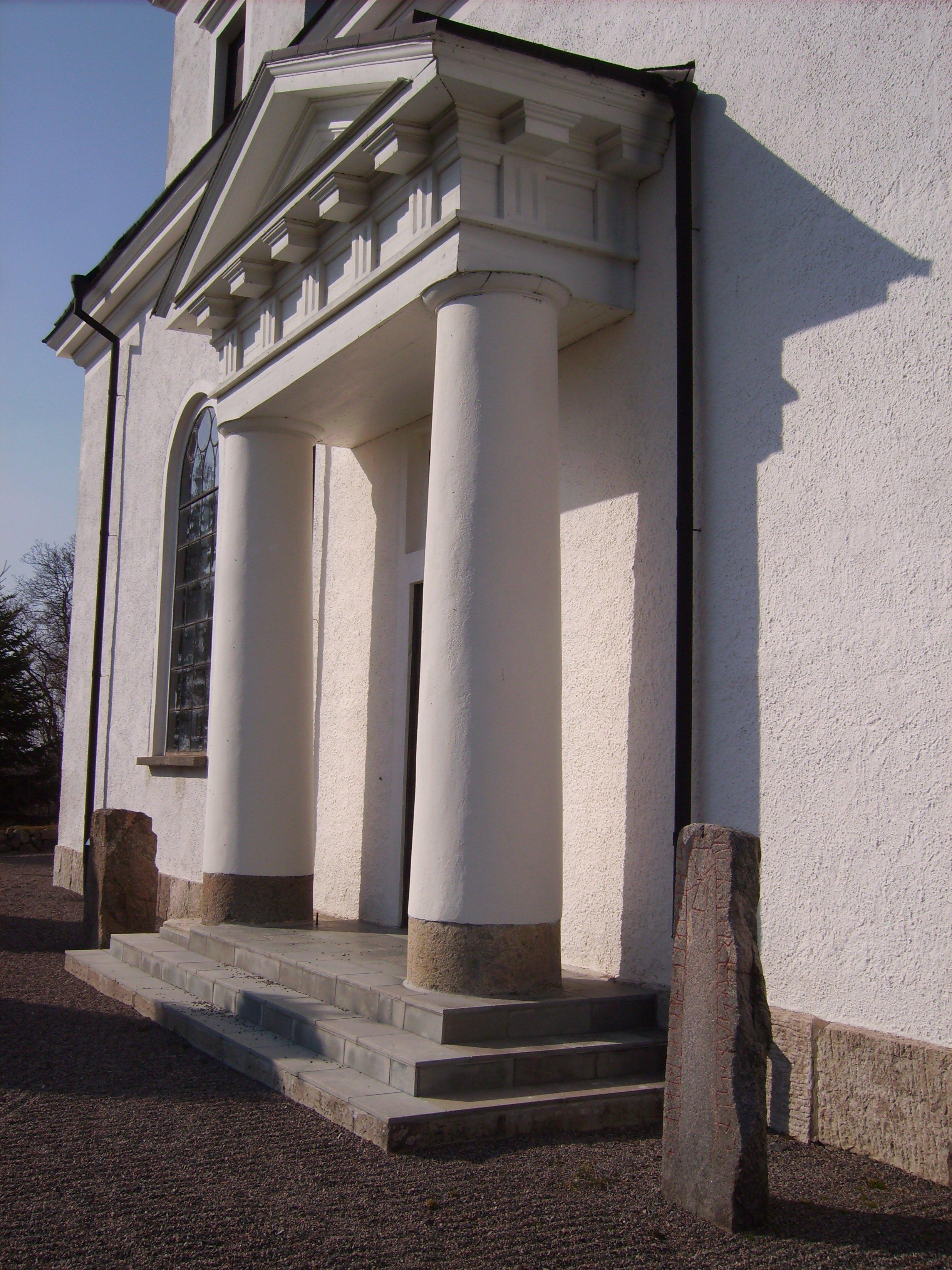 The church in Konungsund, Norrköping, Sweden. The church of today was built 1801-1802, over a medieval church place from 1300th century.